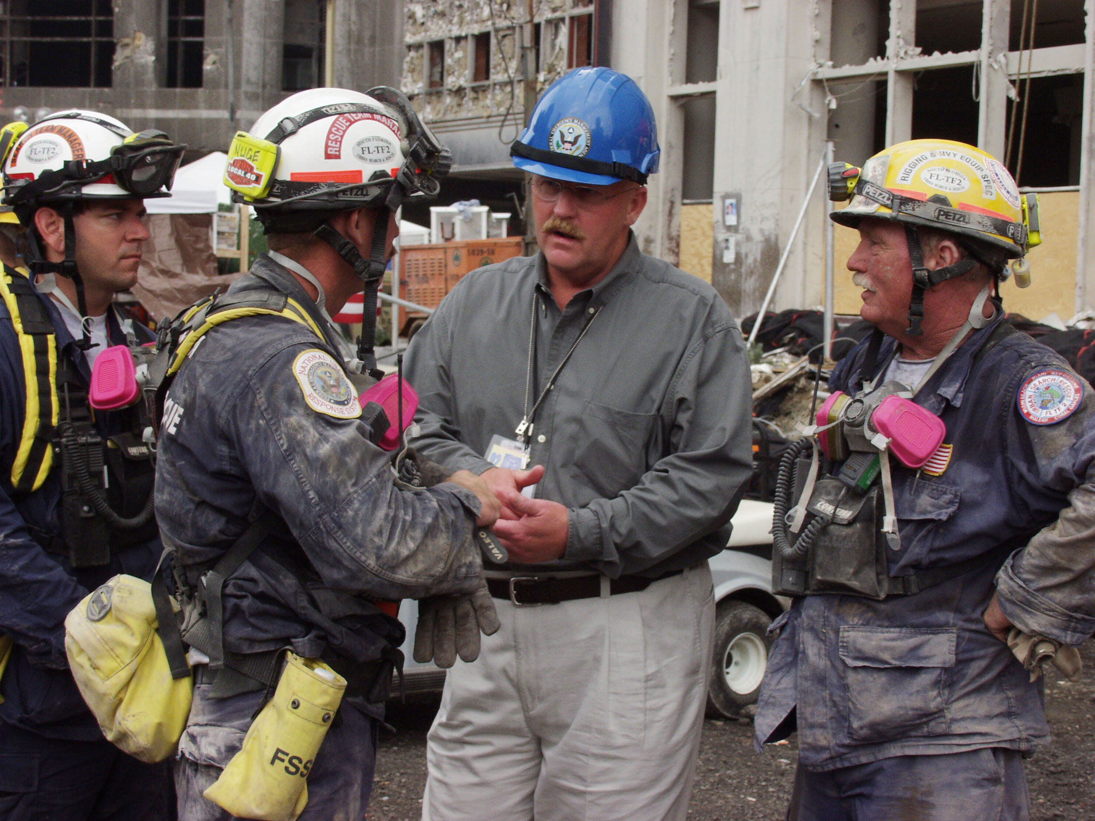 FEMA Director Joe Allbaugh meets with Florida Task Force-2 Urban Search and Rescue team members to thank them for their role in the rescue operations underway at the World Trade Center.